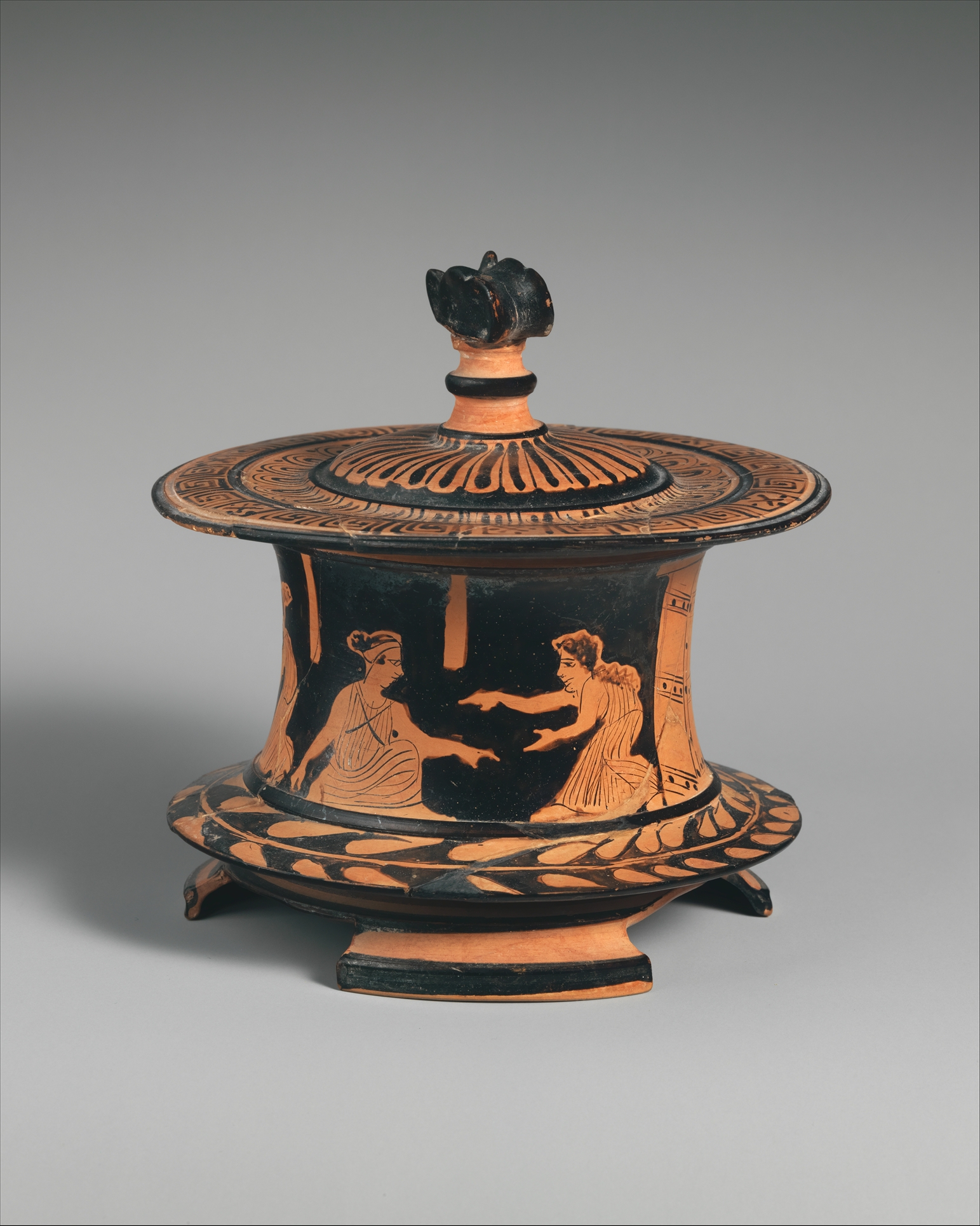 Greek, Attic; Pyxis with lid; Vases